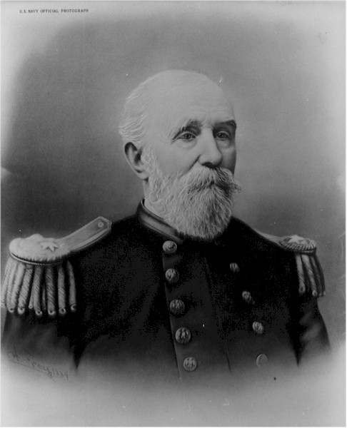 Commodore Thomas Stowell Phelps. He served as Commandant of Mare Island Navy Yard from 15 January 1881 until 15 March 1883. Namesake of destroyer USS Phelps (DD-360).